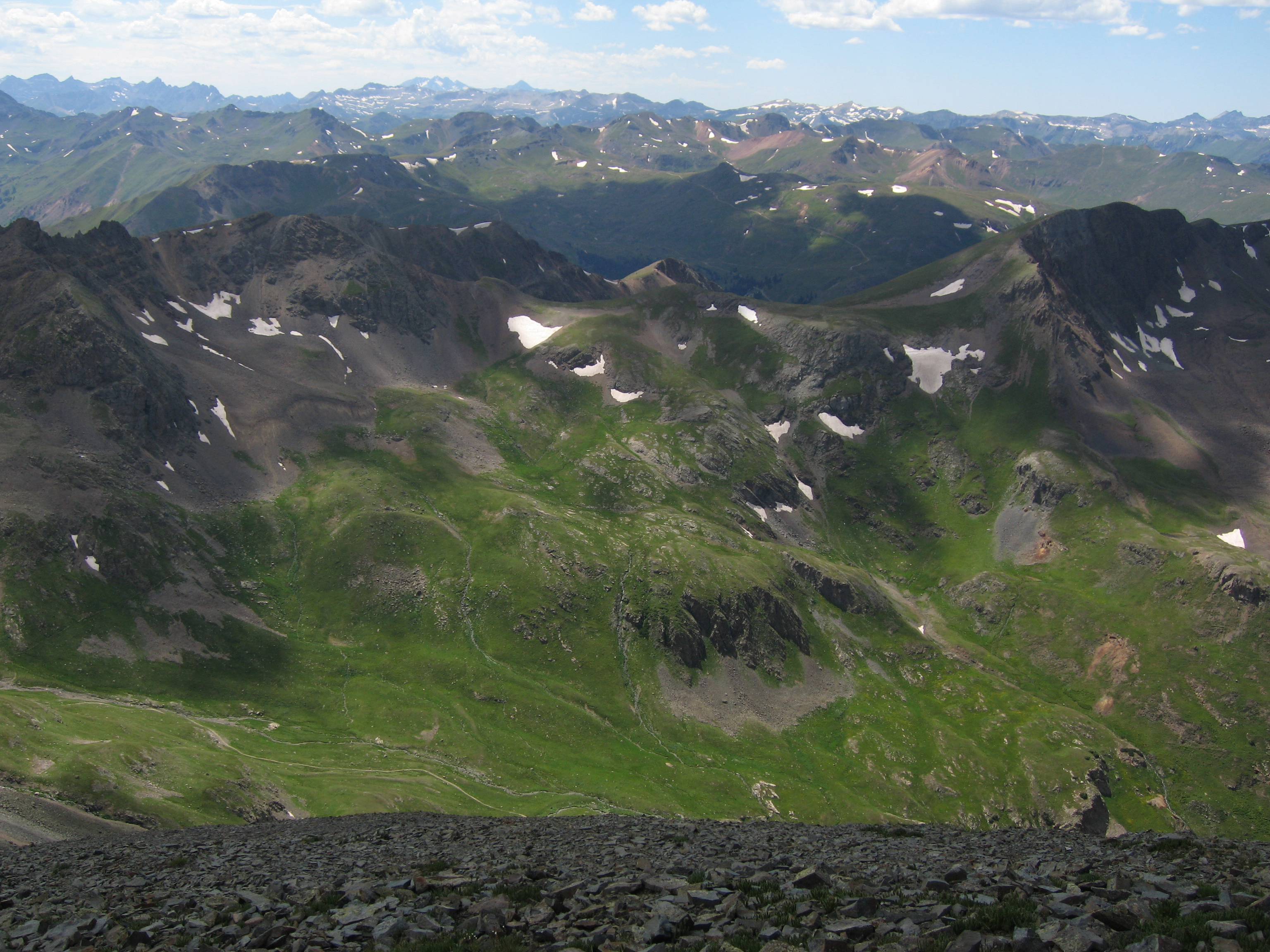 View from Handies Peak, above American Basin, near Lake City, Colorado. August 8, 2011